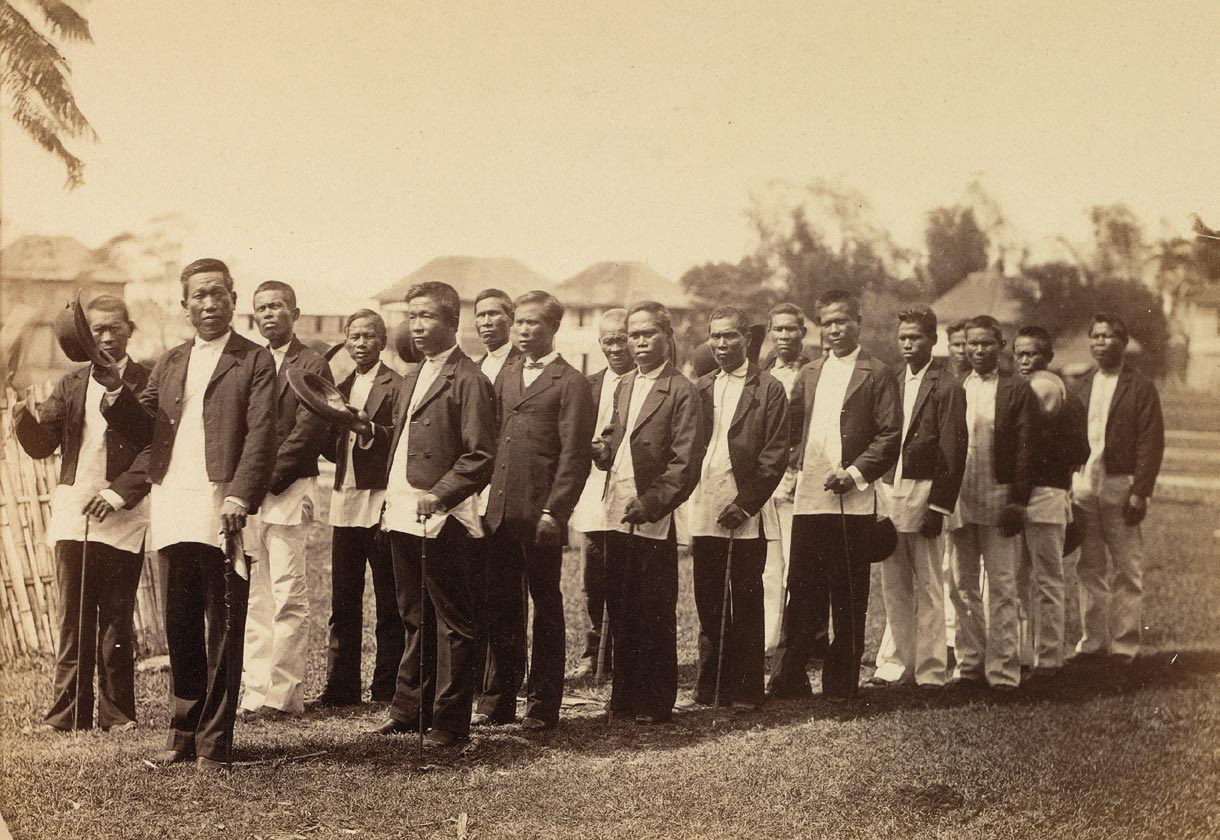 Old photograph of the Principalía of Leganes, Iloilo c. 1880. the Photograph came from the Biblioteca Nacional of Madrid, Spain and was published online at